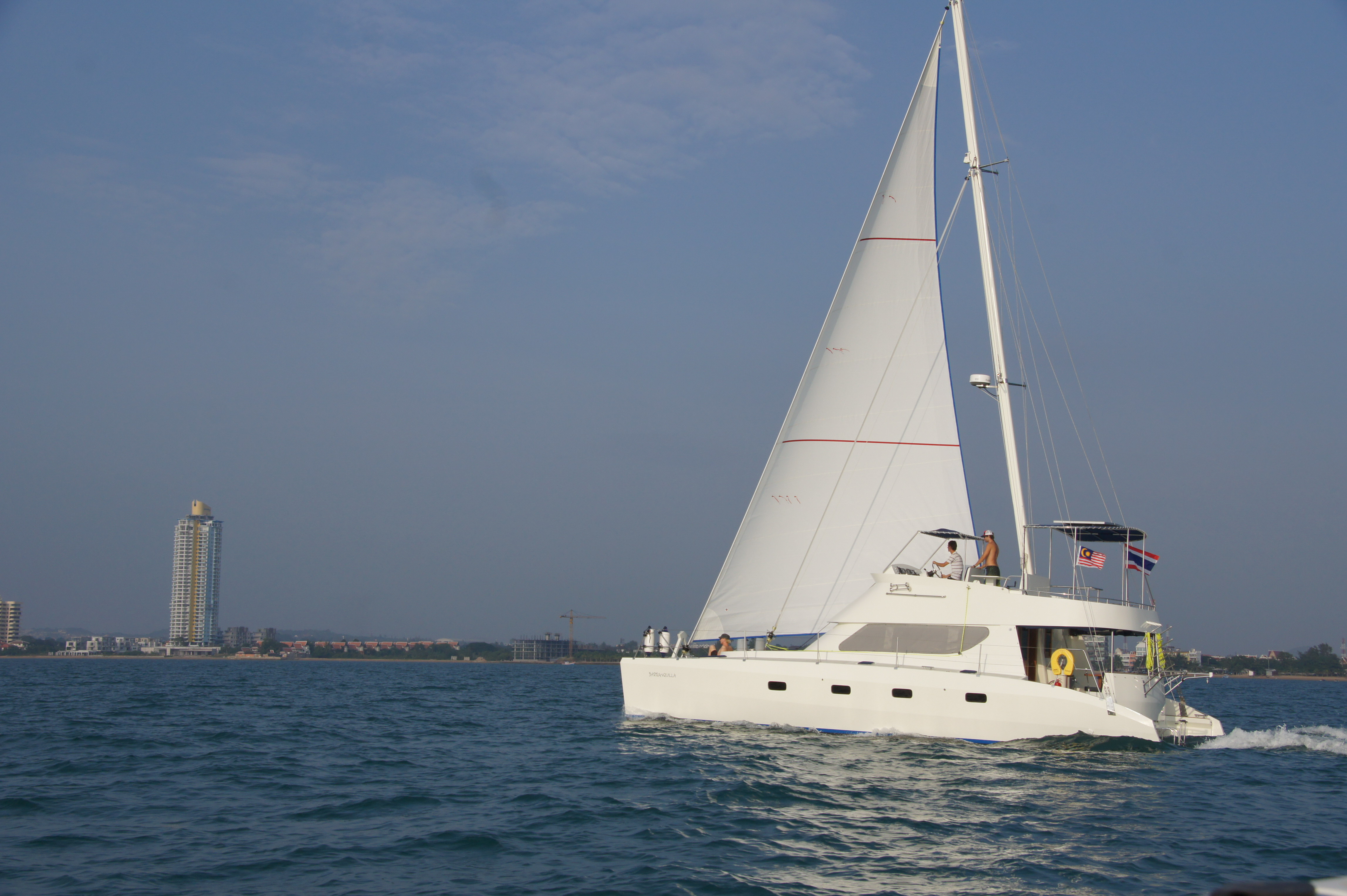 Aft Mast Rig on Catamaran Made In Thailand RB Power & Sailing Model HK-40